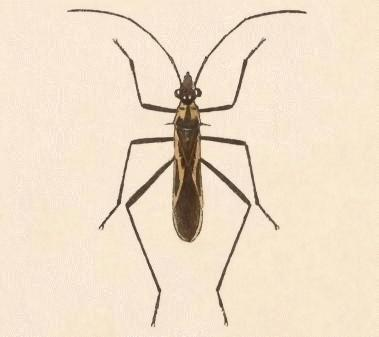 Biologia Centrali-Americana - Cydamus inauratus Cut-out from original (Biologia Centrali-Americana (8272542580).jpg) shown below